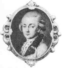 Portrait of german opera singer Valentin Adamberger